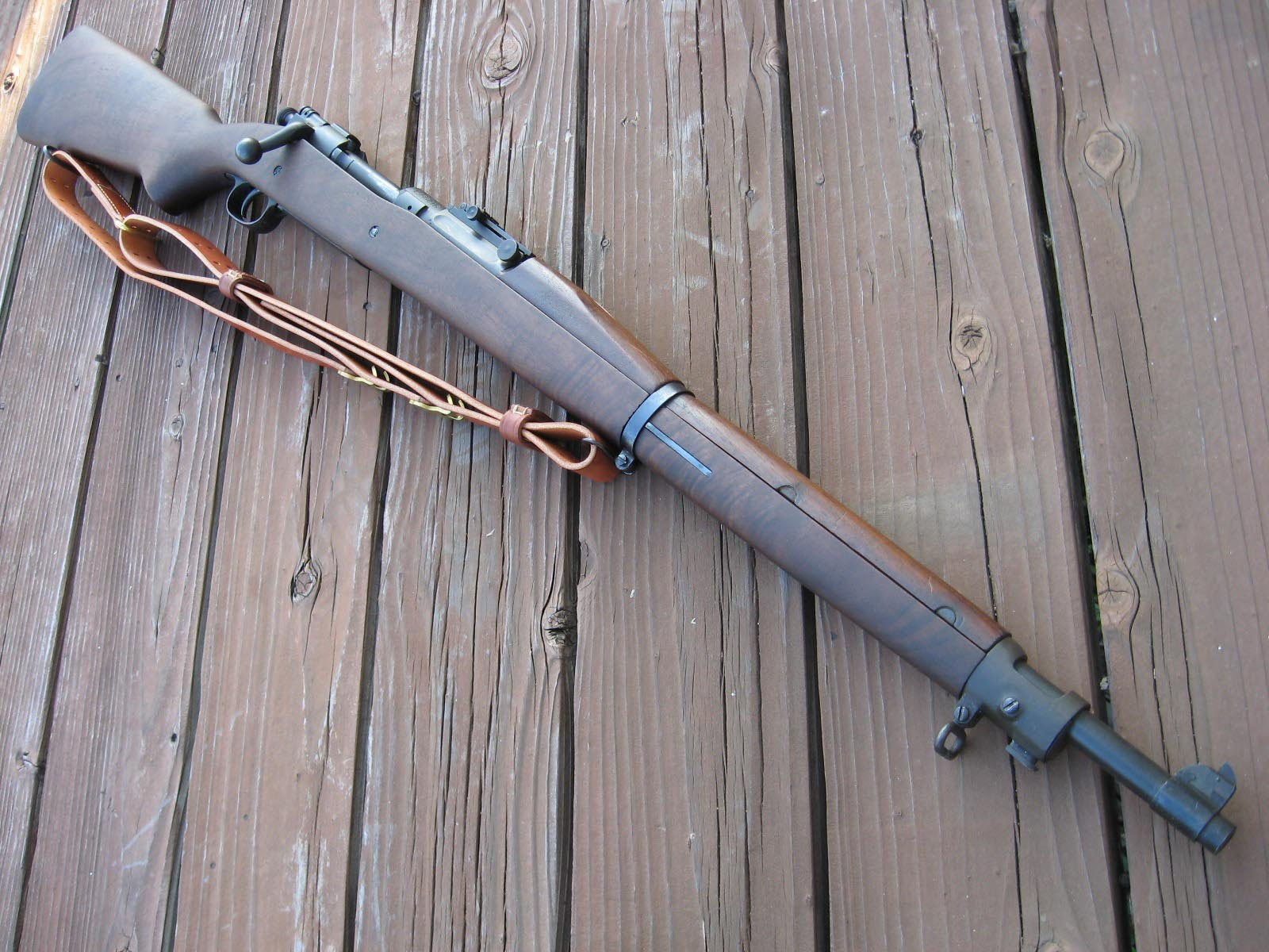 M1903A1 made by Springfield Armory in 1930